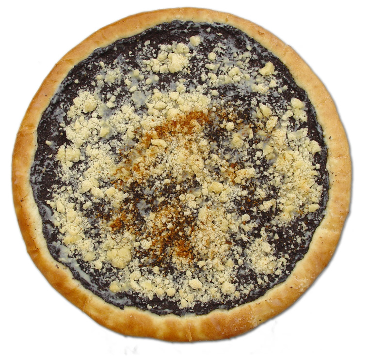 Vlachs' typical cakes, baked in Valašsko area. Named koláče ("colaci" in Romanian) and also called "frgály" (frigare, from "a frige", to roast in Romanian).